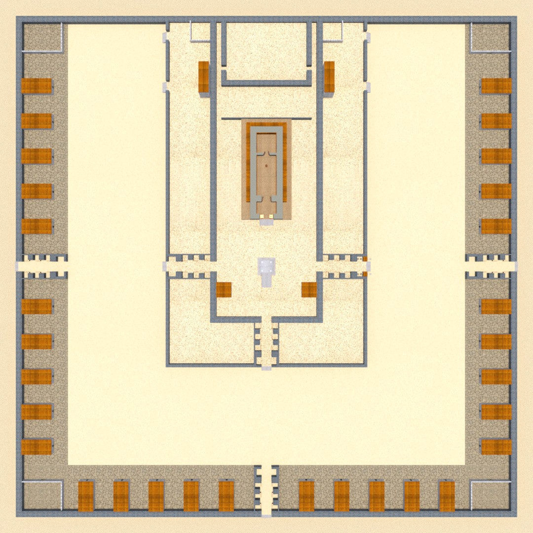 Ezekiel's Temple Area Plan, as described in Ezekiel 40-46